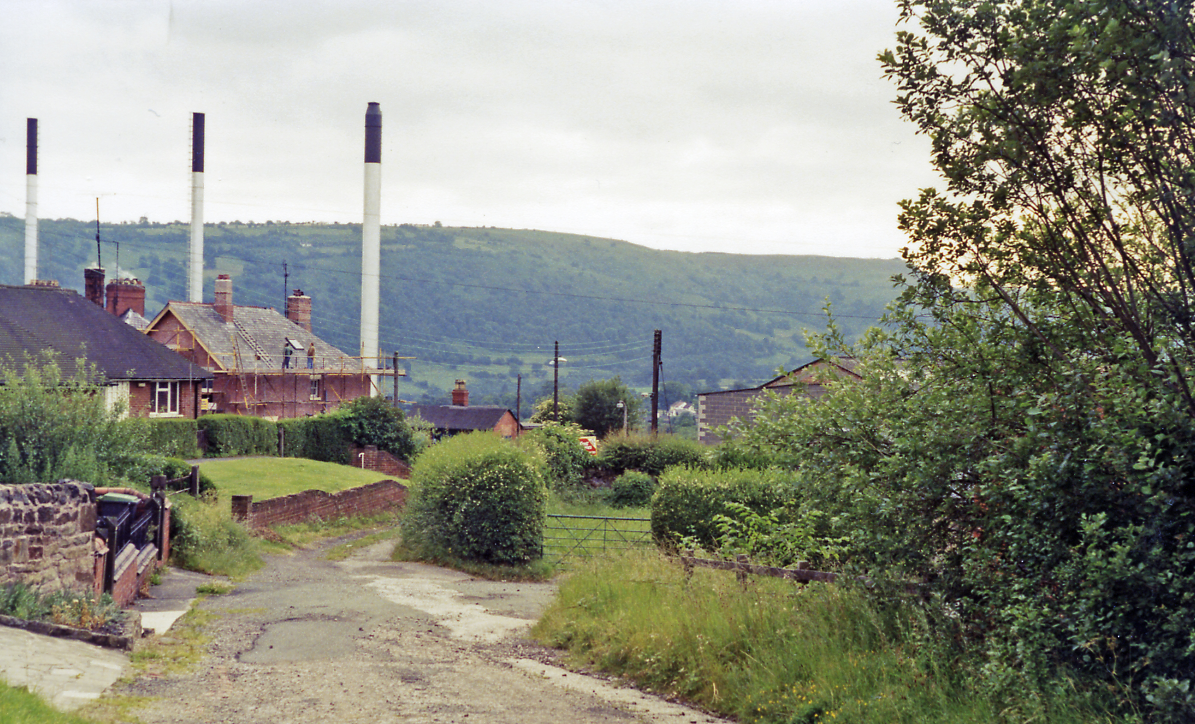 Acrefair station (site/remains), 1992. View NW, towards Llangollen and Barmouth: ex-GWR (Chester) - Ruabon - Dolgelley - Barmouth Junction line, closed 18/1/65, but partly restored by the Llangollen Railway since 1975.